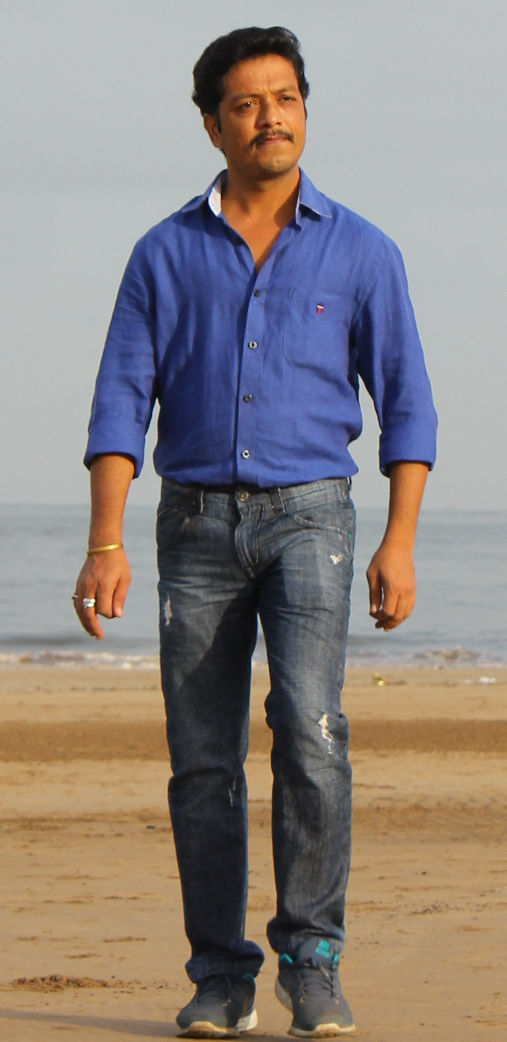 Sachin at beach